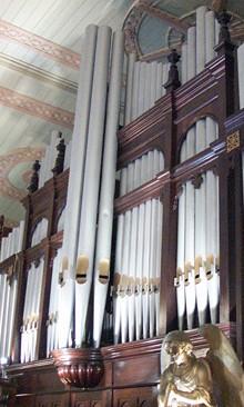 The Gallery Organ of the Cathedral of the Good Shepherd in Singapore, which is the oldest playable organ in Singapore.